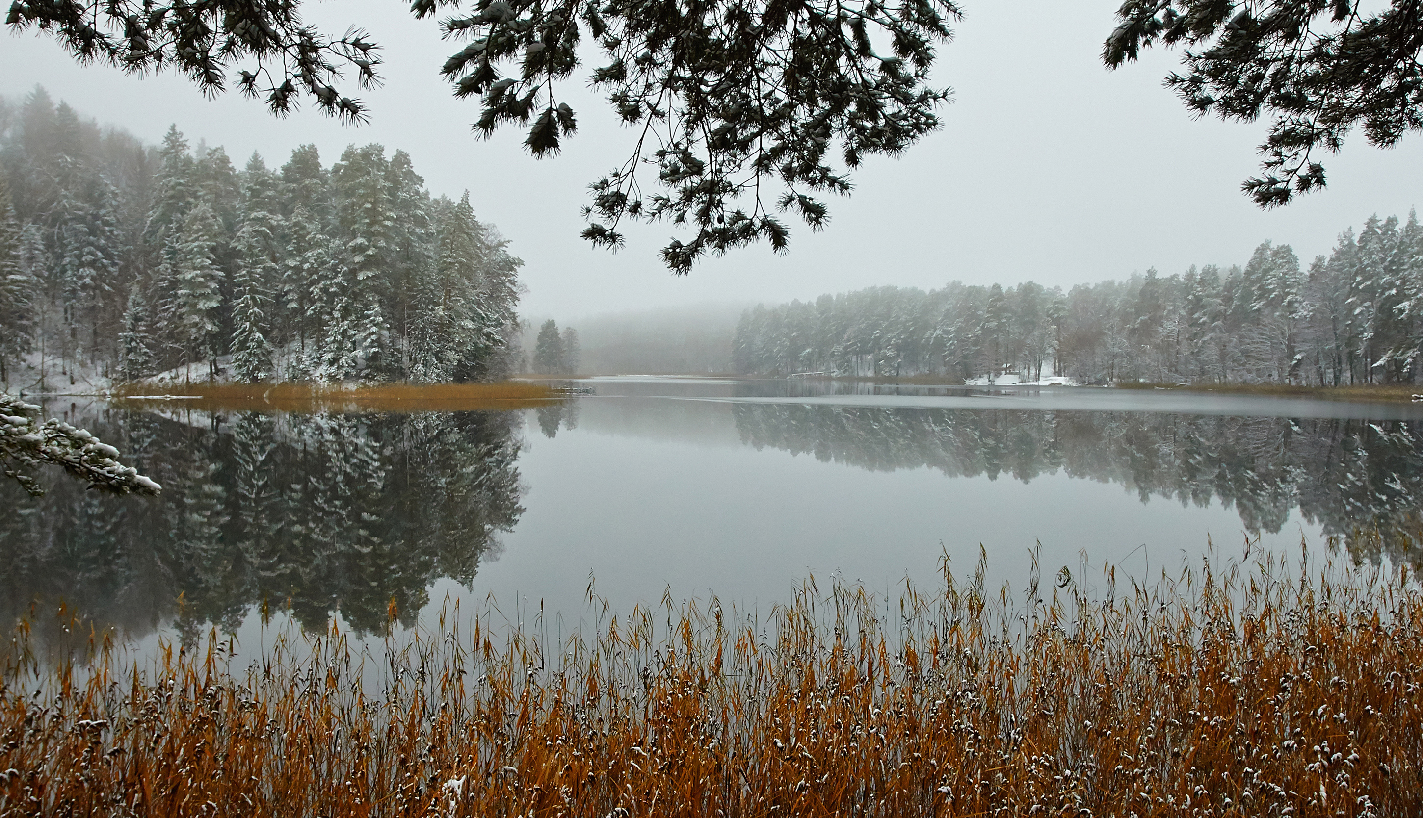 Lake Verijärv in November. Võru County, Estonia.